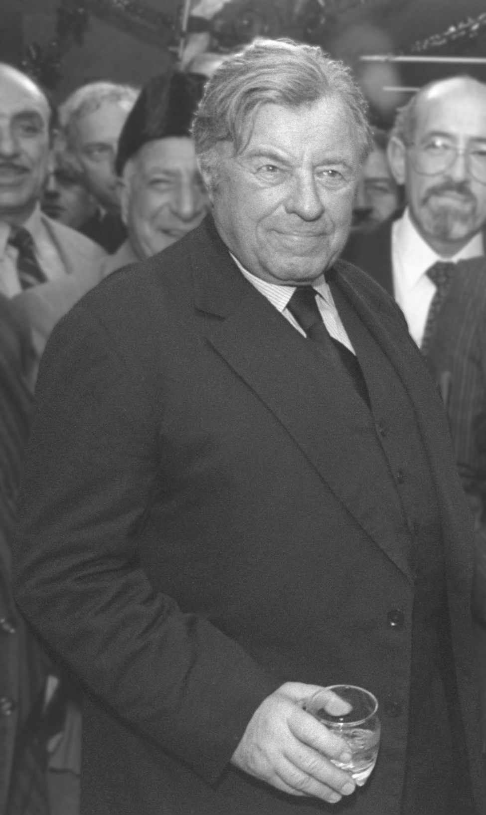 Jerusalem mayor Teddy Kollek during a Christmas eve cocktail party